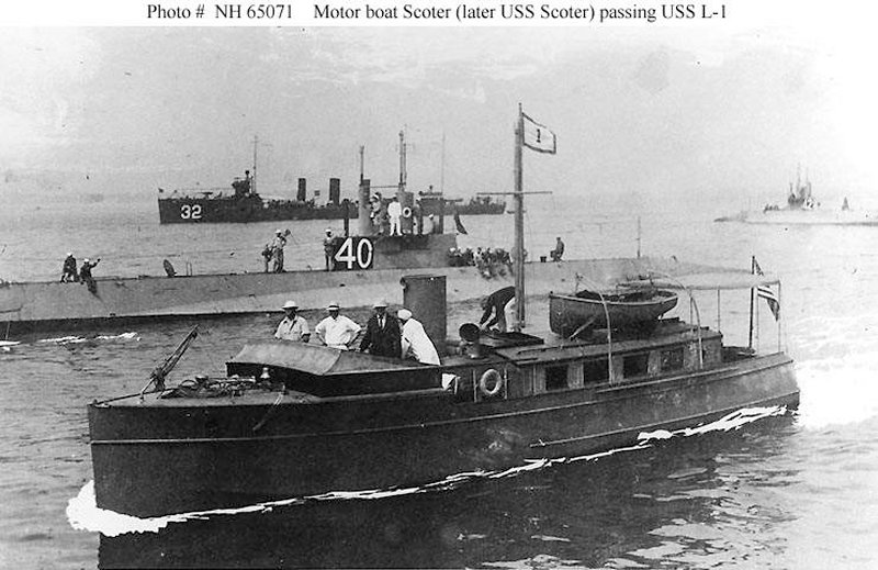 Photo #: NH 65071. USS Scoter (SP-20) (American Motor Boat, 1916). Passing USS L-1 (Submarine # 40) while underway, probably in 1916. USS L-3 (Submarine # 42) and USS Monaghan (Destroyer # 32) are in the background. This pleasure craft, built by George Lawley & Son of Neponset, Massachusetts, became USS Scoter (SP-20) in 1917. U.S. Naval Historical Center Photograph.